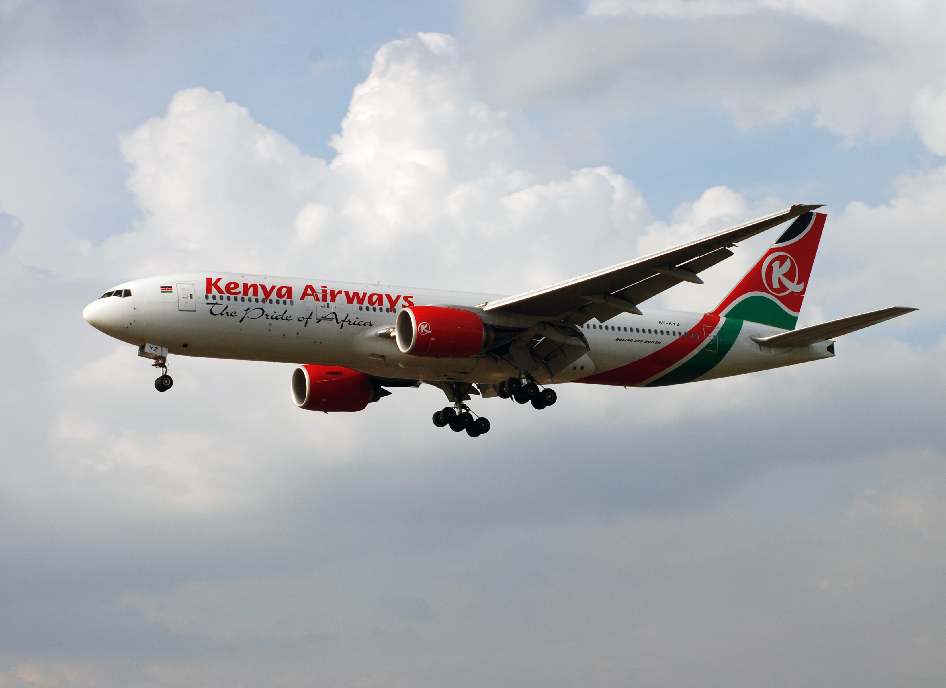 Myrtle Avenue,July 2008